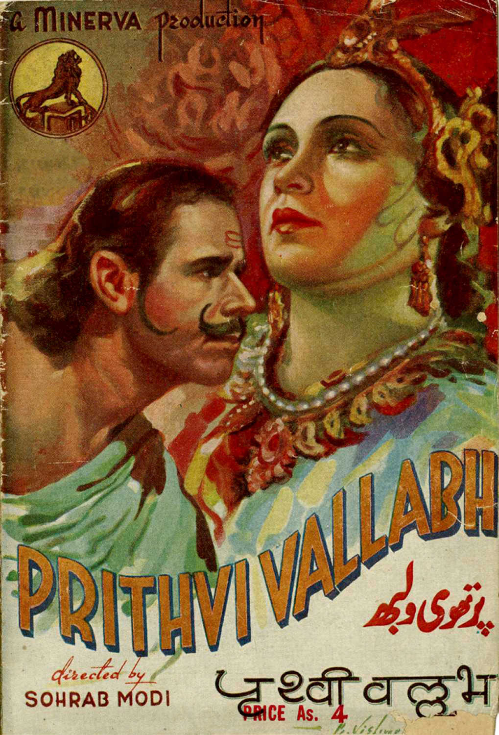 Promotional poster of the Indian Hindi-language film Prithvi Vallabh (1943). The cover shows Sohrab Modi and Durga Khote